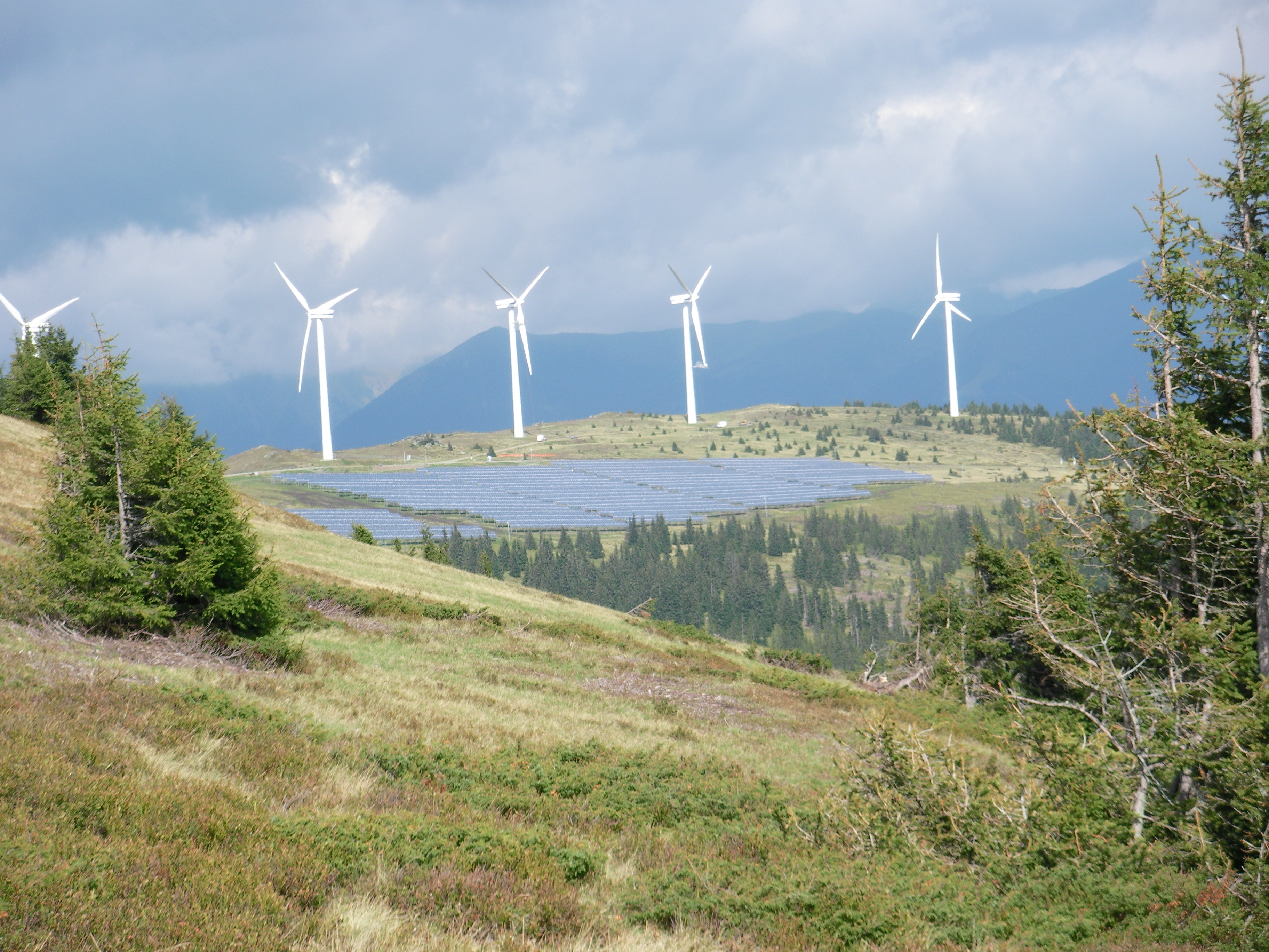 Oberzeiring Solar energy Wind turbine.